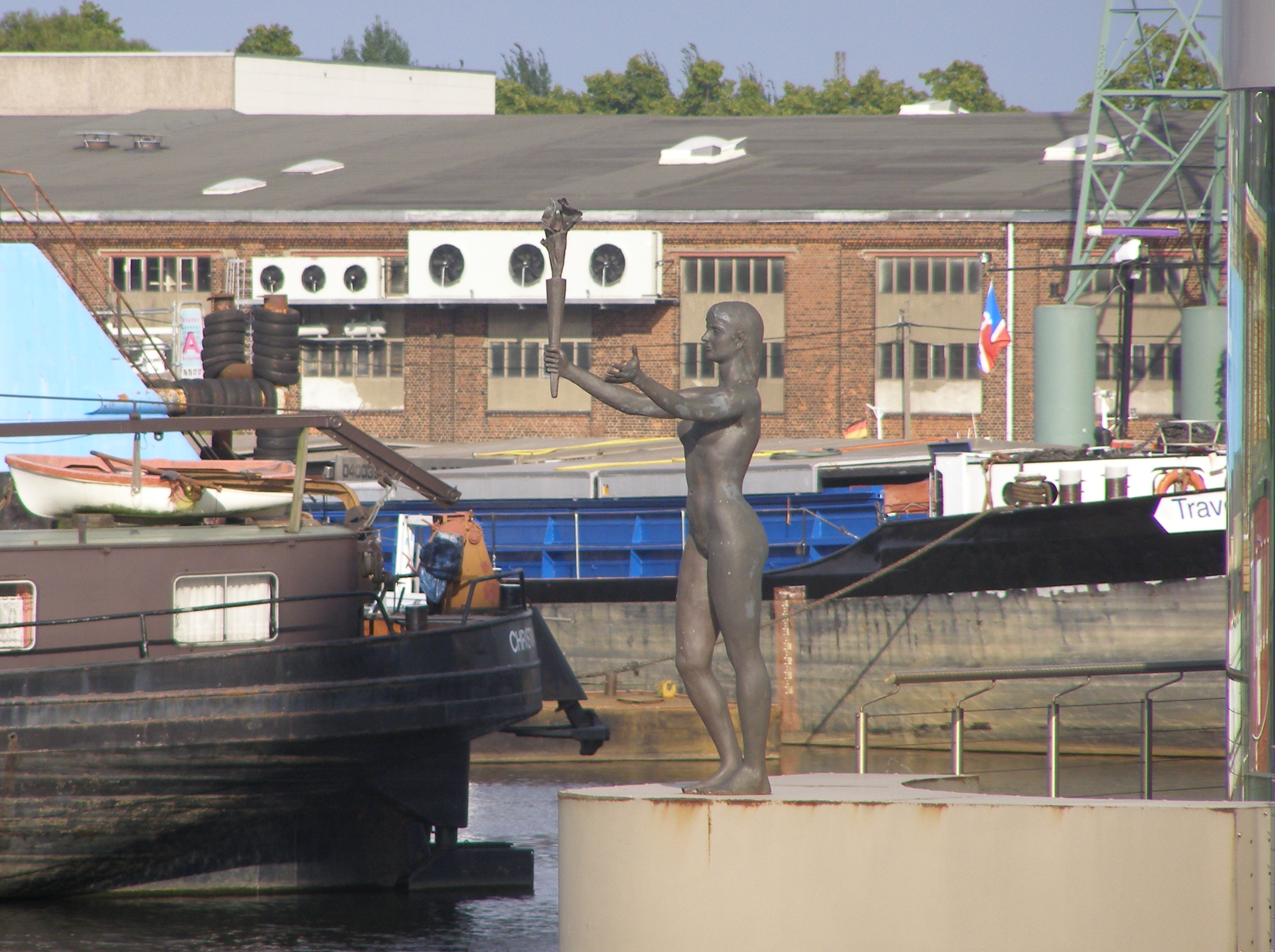 Statue of Veritas at the German headquarters of Bureau Veritas in Harburg, Hamburg, Germany